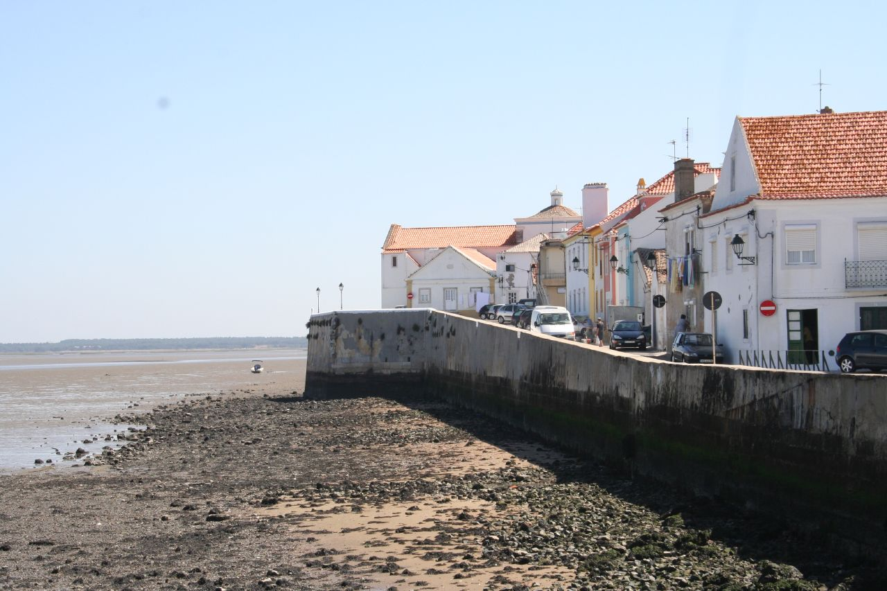 Vila Alcochete with Tejo View